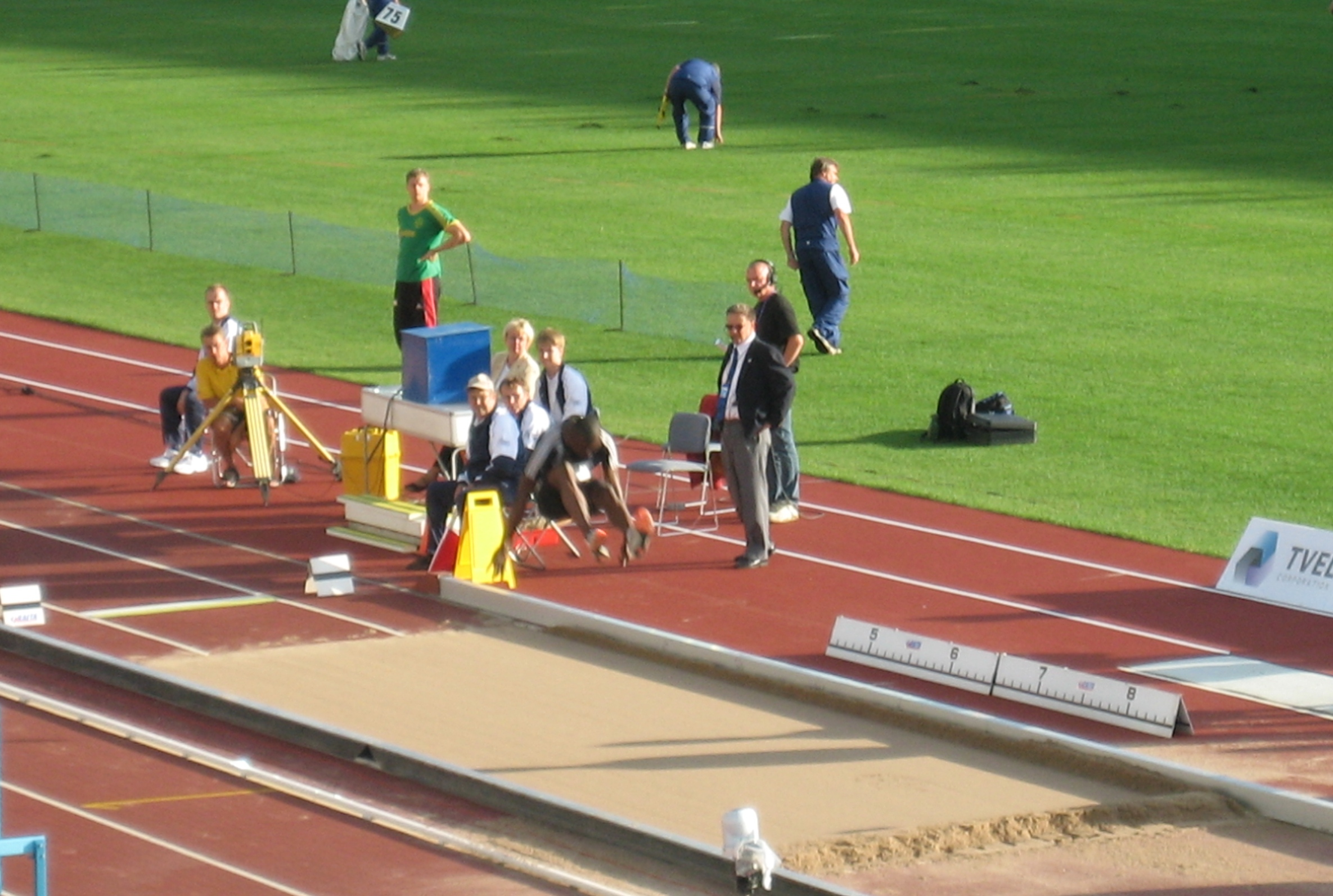 Unknown long jumper has his go at the GE Money Grand Prix in Helsinki, July 25th 2005. Note: That's not Salim Sdiri. Sdiri is white and French dress is blue.